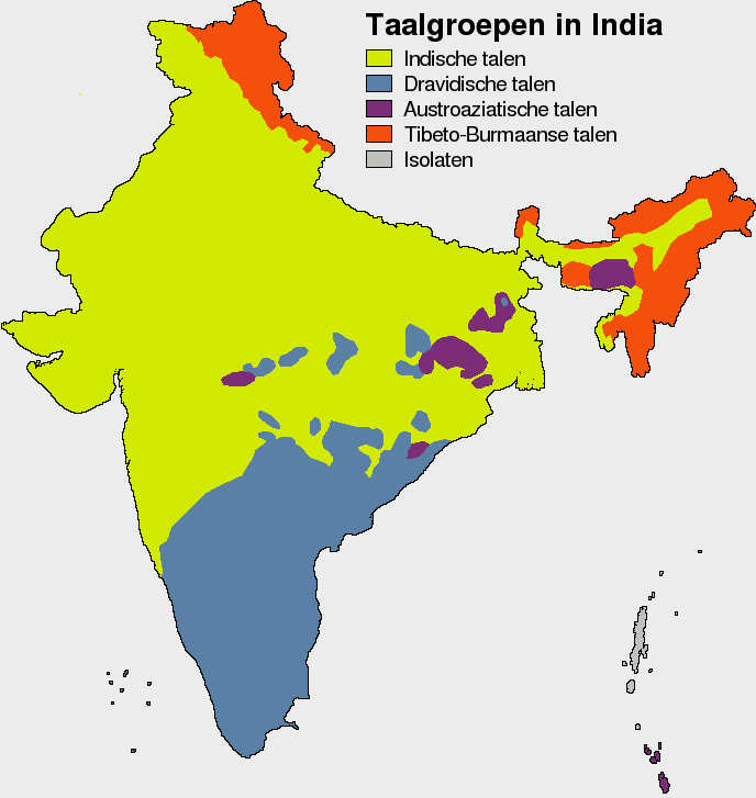 Dutch translation of Image:Indien Sprachfamilien.png.